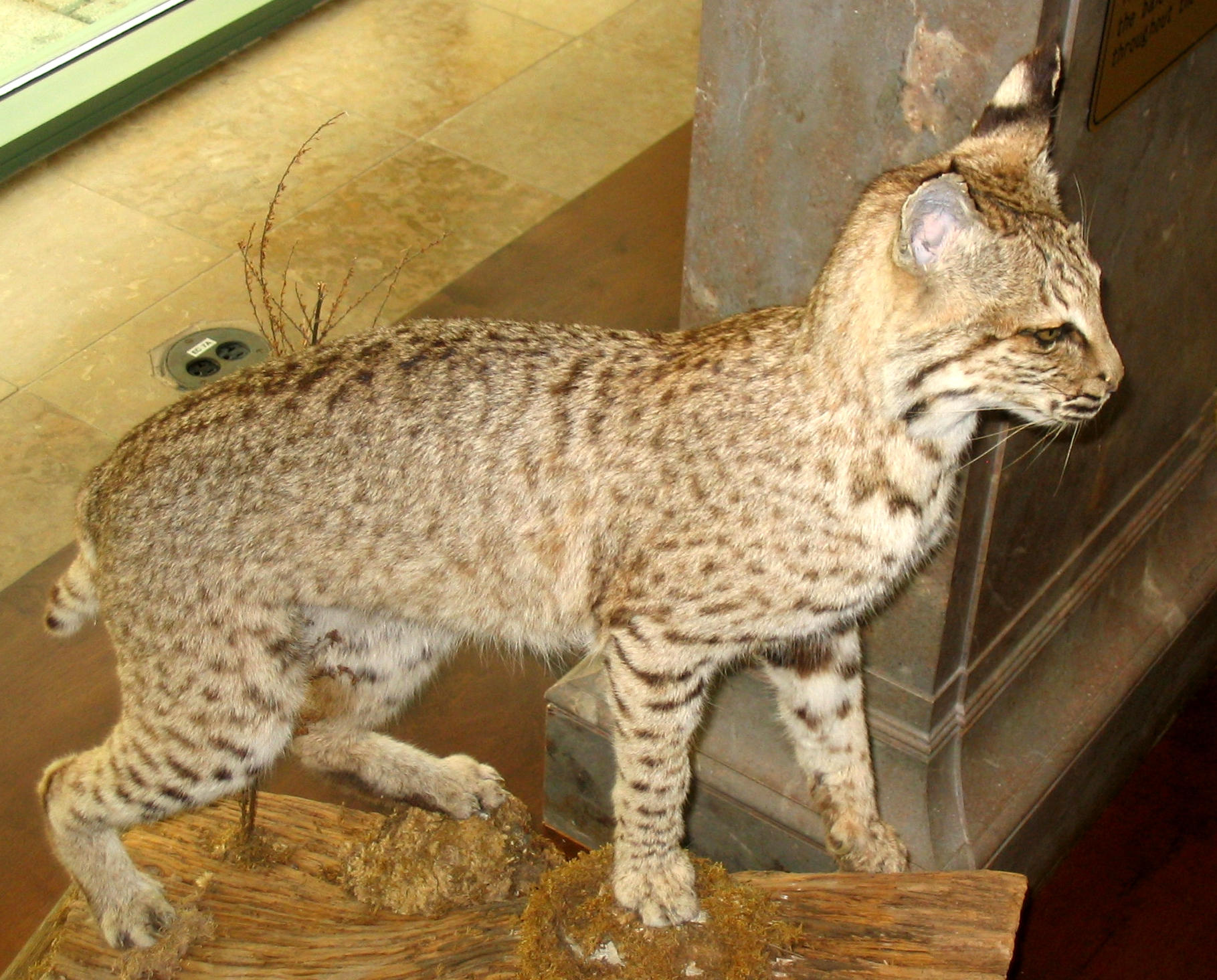 Taxidermied bobcat on display at the Patuxent Wildlife Research Center.